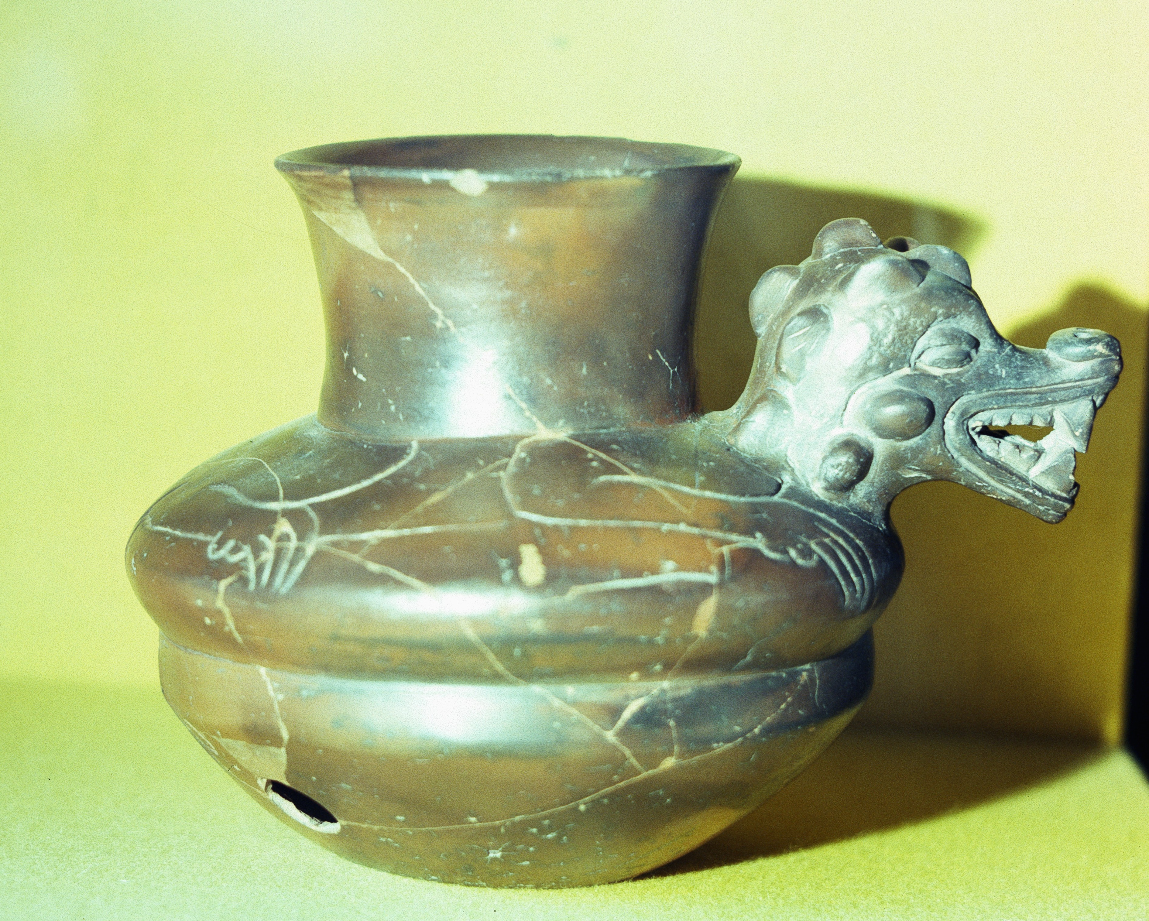 Tula, Hidalgo, Mexico: plumbate vessel